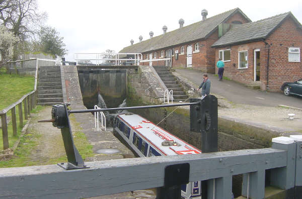 Bunbury Locks and Stables The staircase locks on the Shropshire Union Canal at Bunbury, Cheshire. On the right are the former stables that were used by the horses that pulled the boats.